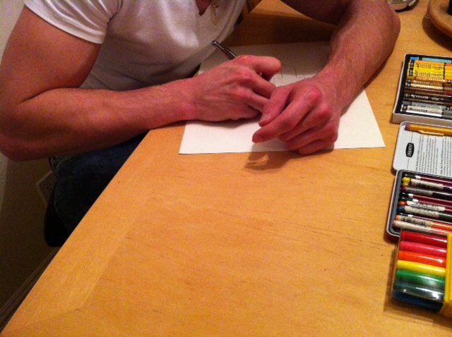 Adult Male Art Interview doing Art Directives